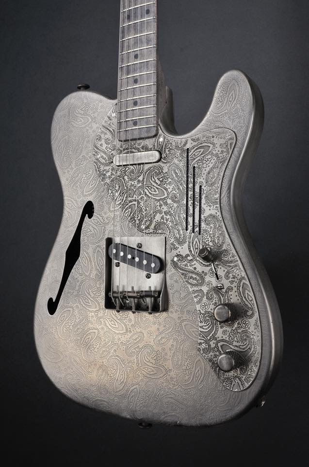 Deluxe SteelCaster Antique Silver Paisley Engraved. Electric guitar created by James Trussart.